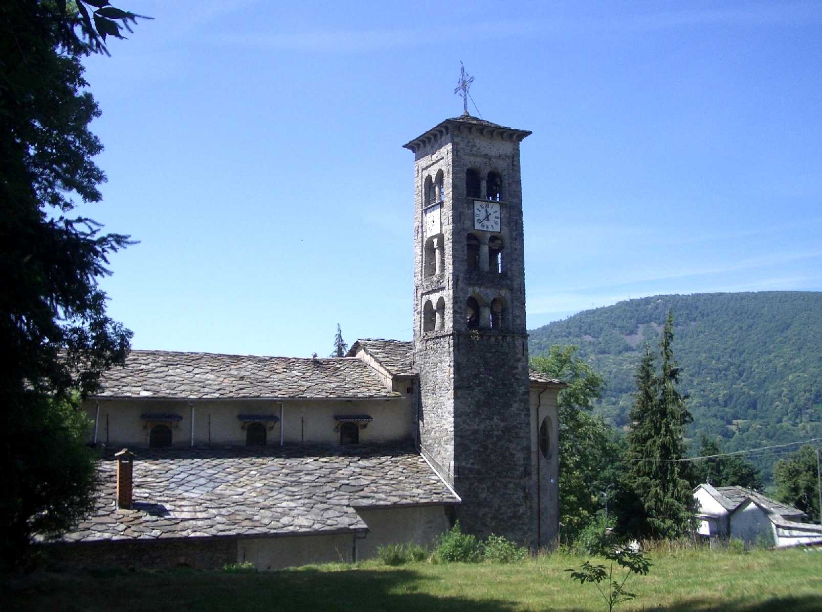 Church of Vico Canavese (province of Torino, Piemonte, Italy)